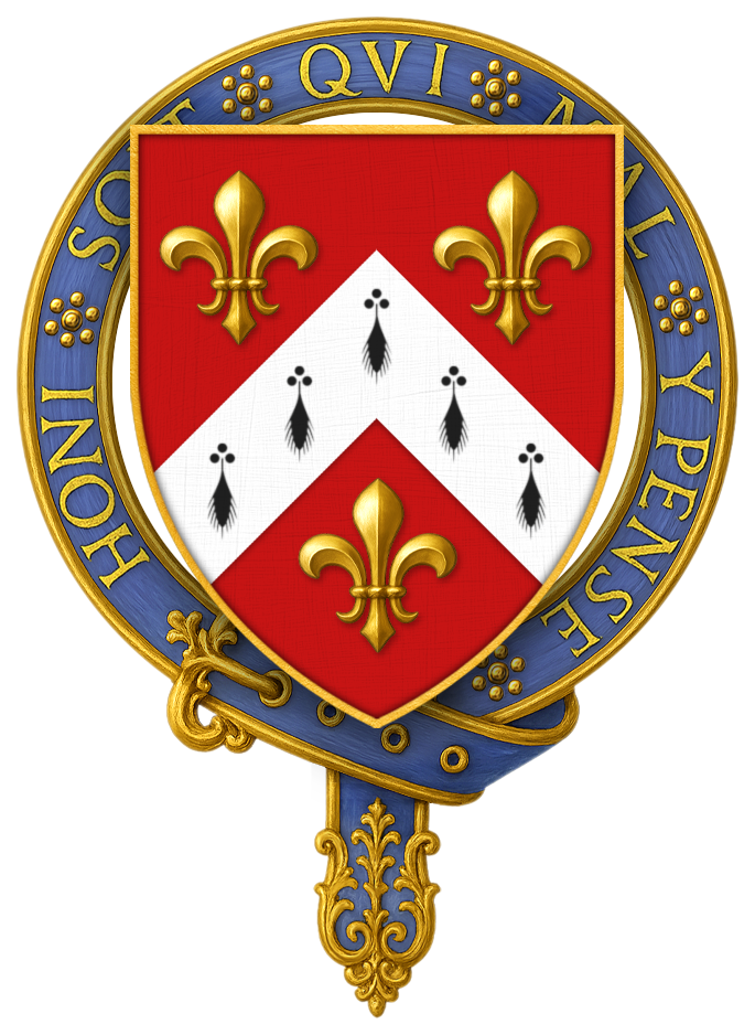 Sir Thomas Montgomery, KG BURKE, Sir Bernard, The General Armory of England, Scotland, Ireland, and Wales: Comprising a Registry of Armorial Bearings from the Earliest to the Present Time, London: Harrison & sons, 1884. “ Montgomery (Sir Thomas Montgomery, K.G., 4 Nov. 1476, d. 11 Jan. 1495). Gu. a chev. erm. betw. three fleur-de-lis or. ”